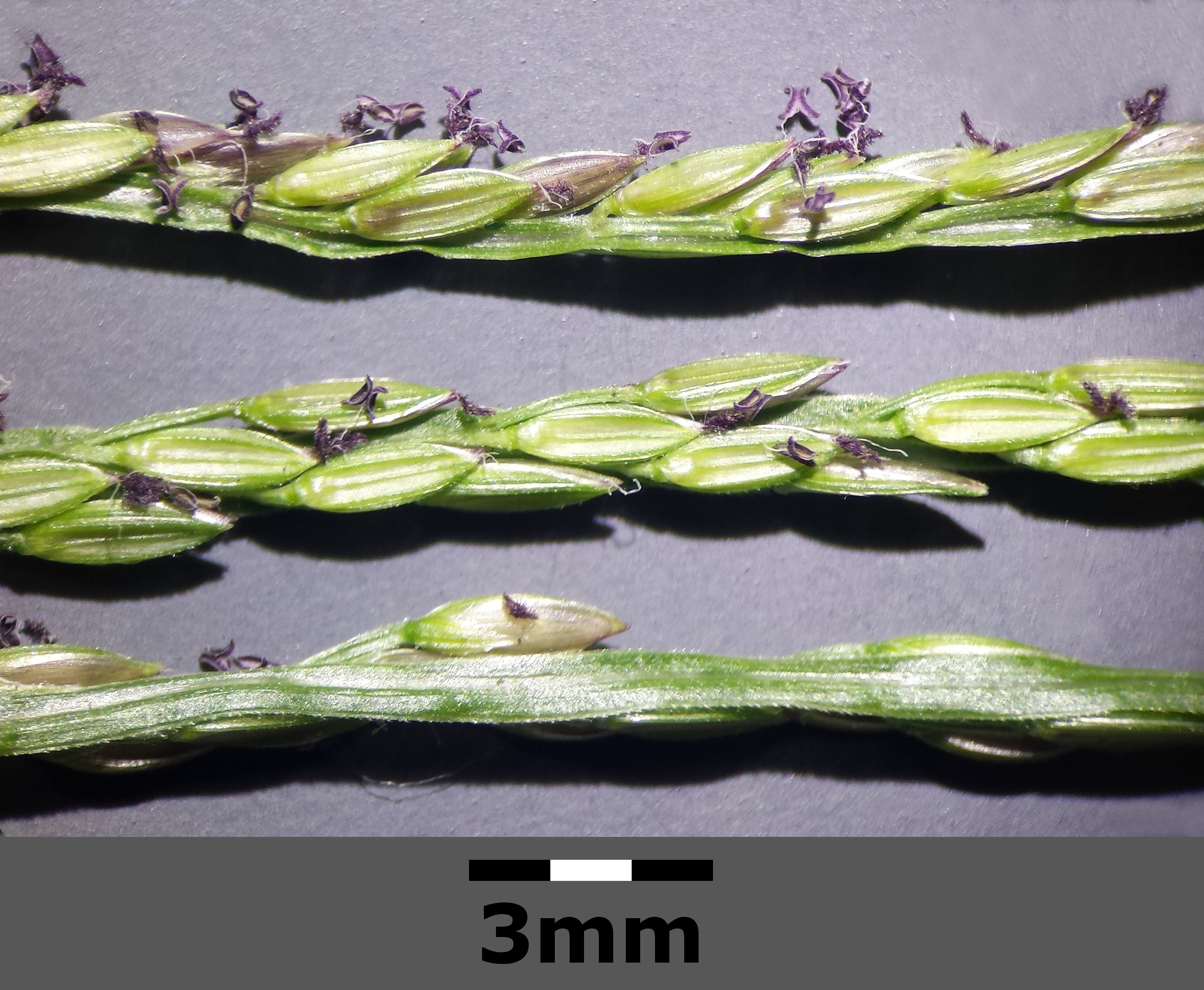 Spikes Taxonym: Digitaria sanguinalis subsp. sanguinalis ss Fischer et al. EfÖLS 2008 ISBN 978-3-85474-187-9 Location: Donaufeld, Vienna-Floridsdorf - ca. 160 m a.s.l. Habitat: surface gap